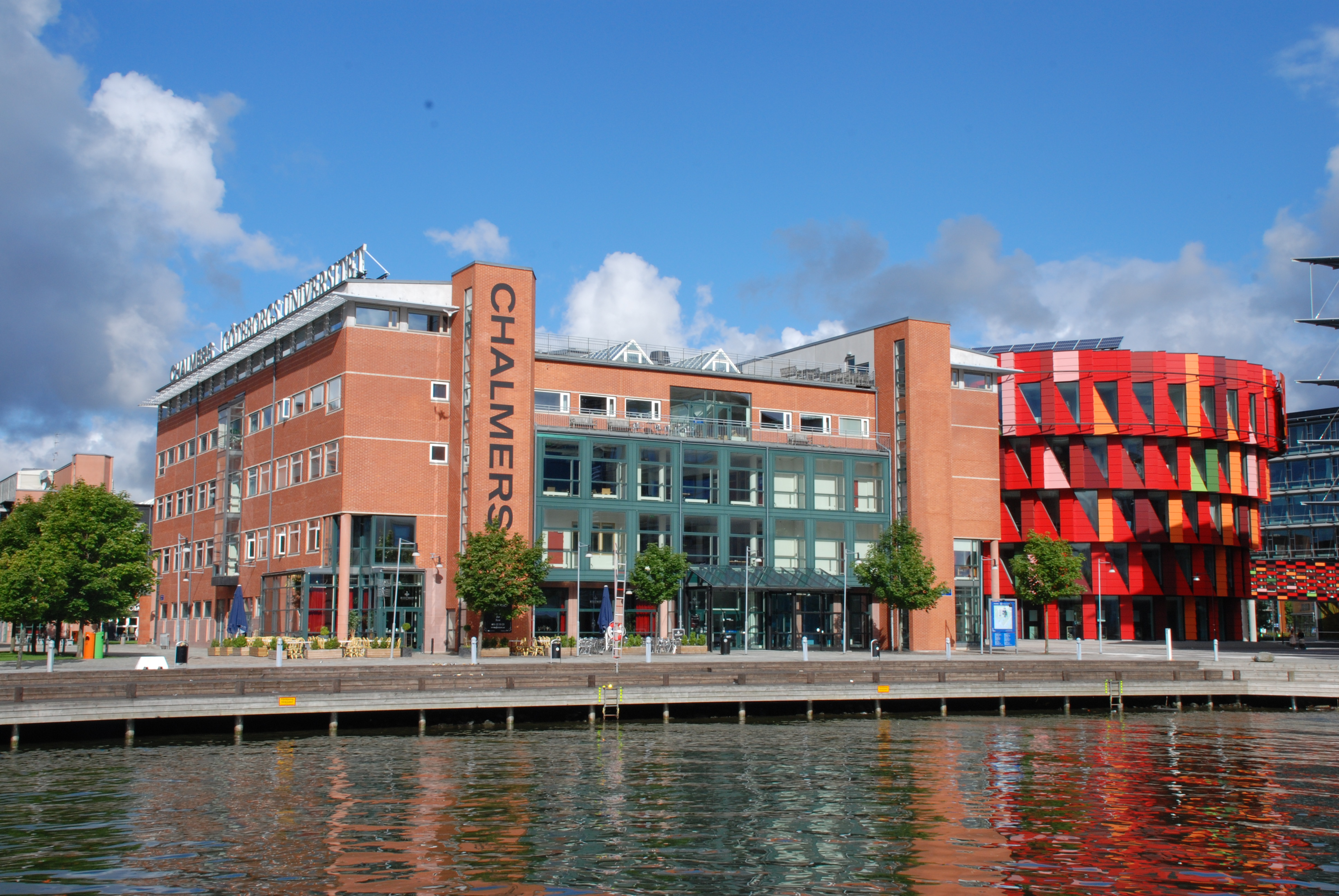 Chalmers University of Technology, Lindholmen in Göteborg.